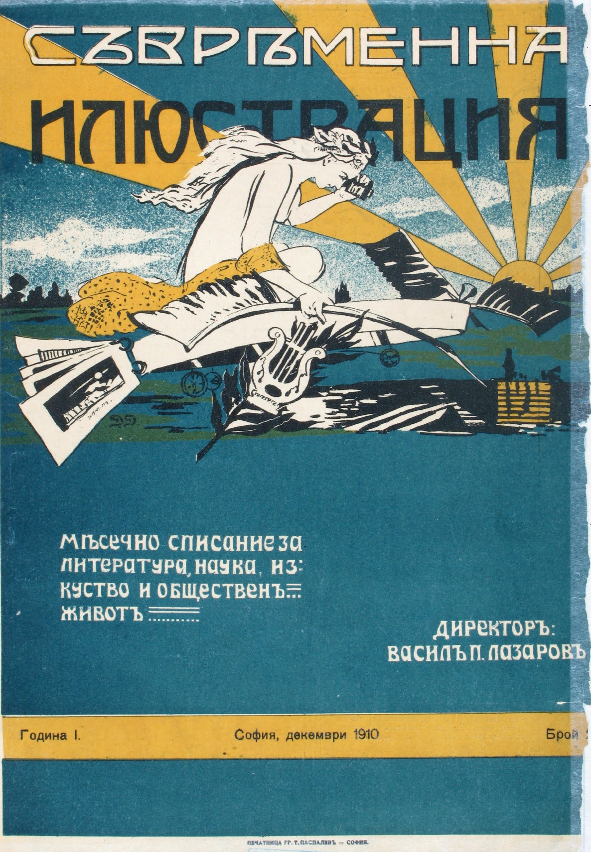 Modern illustration magazine, 1910